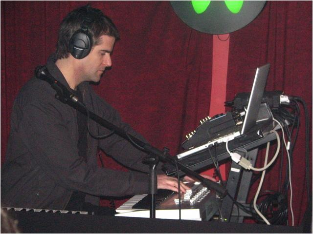 Kevin Moore at Balo Stage-Istanbul